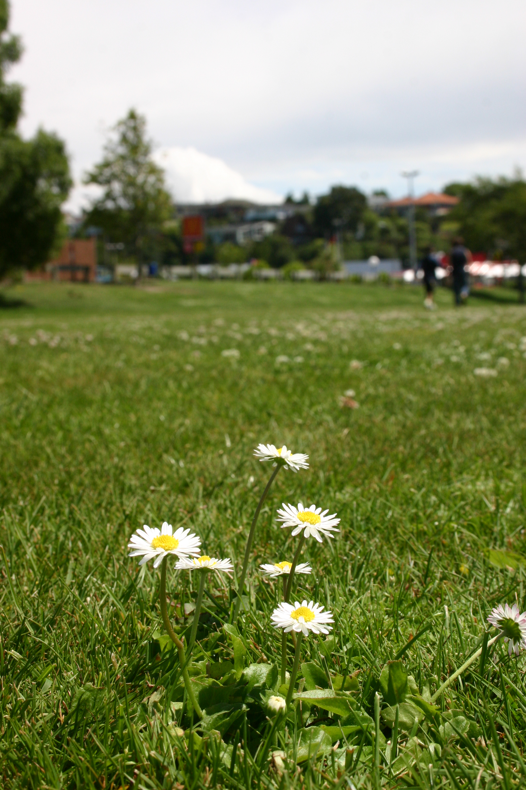 A couple of daisies that survived the gang mower in a local park in Timaru, New Zealand.